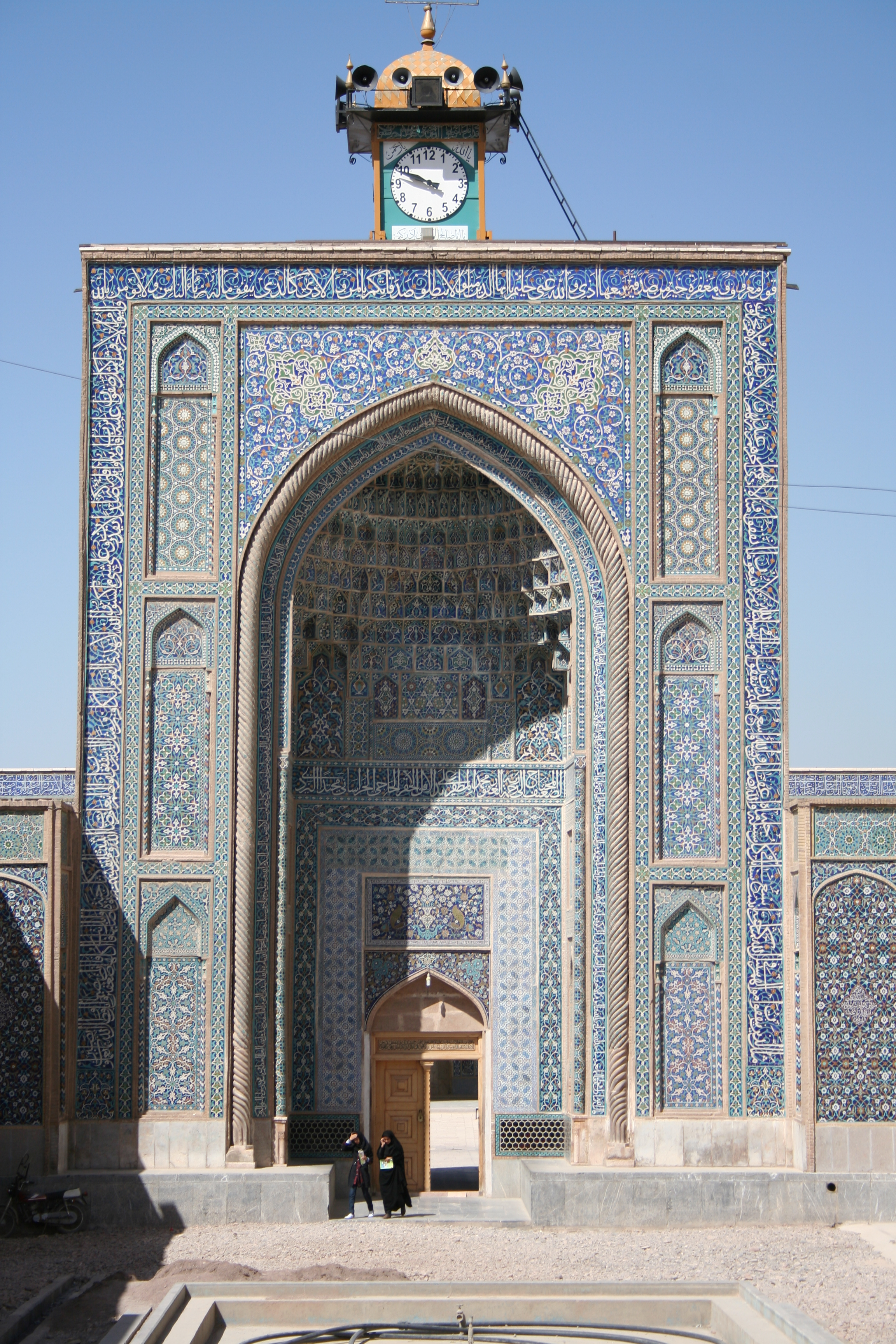 Kerman, Friday Mosque, main entrance